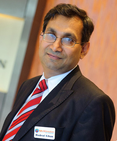 Photo of Badrul Khan